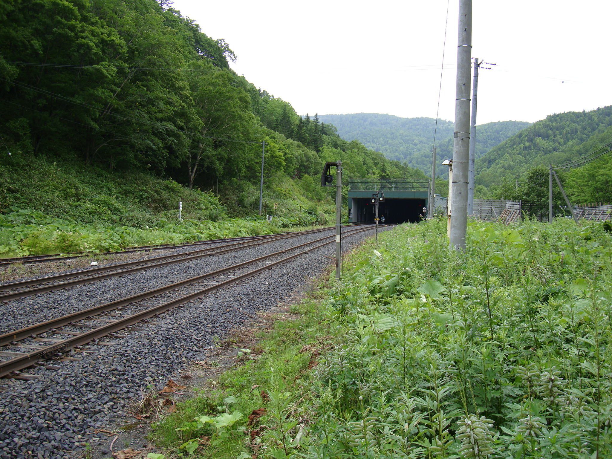 Kamikoshi Signal Base